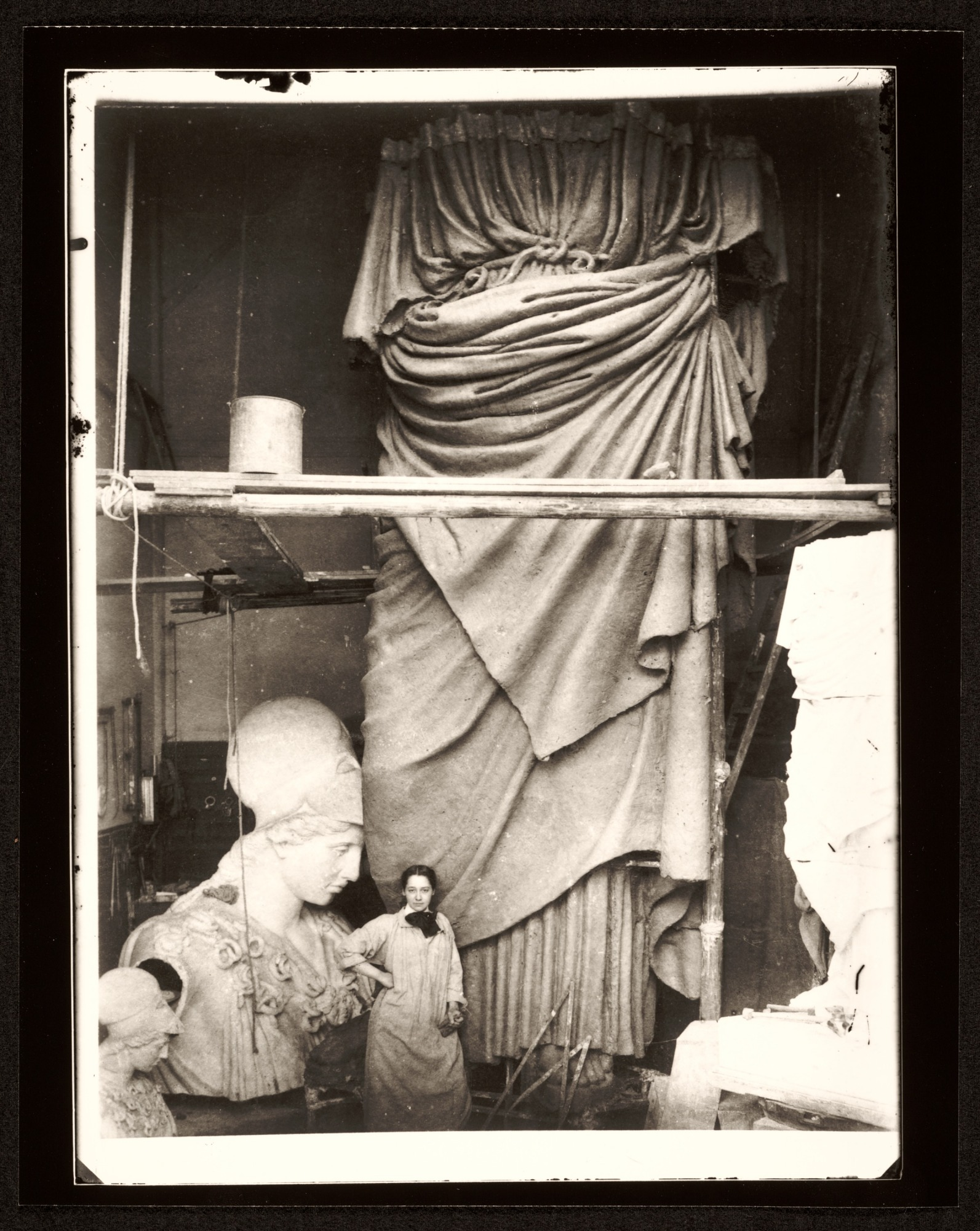 Enid Yandell with her sculpture of Pallas Athena, 1896 / unidentified photographer. Enid Yandell papers, 1878-1982. Archives of American Art, Smithsonian Institution.